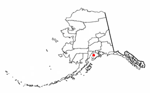 Adapted from Wikipedia's AK borough maps by Seth Ilys.